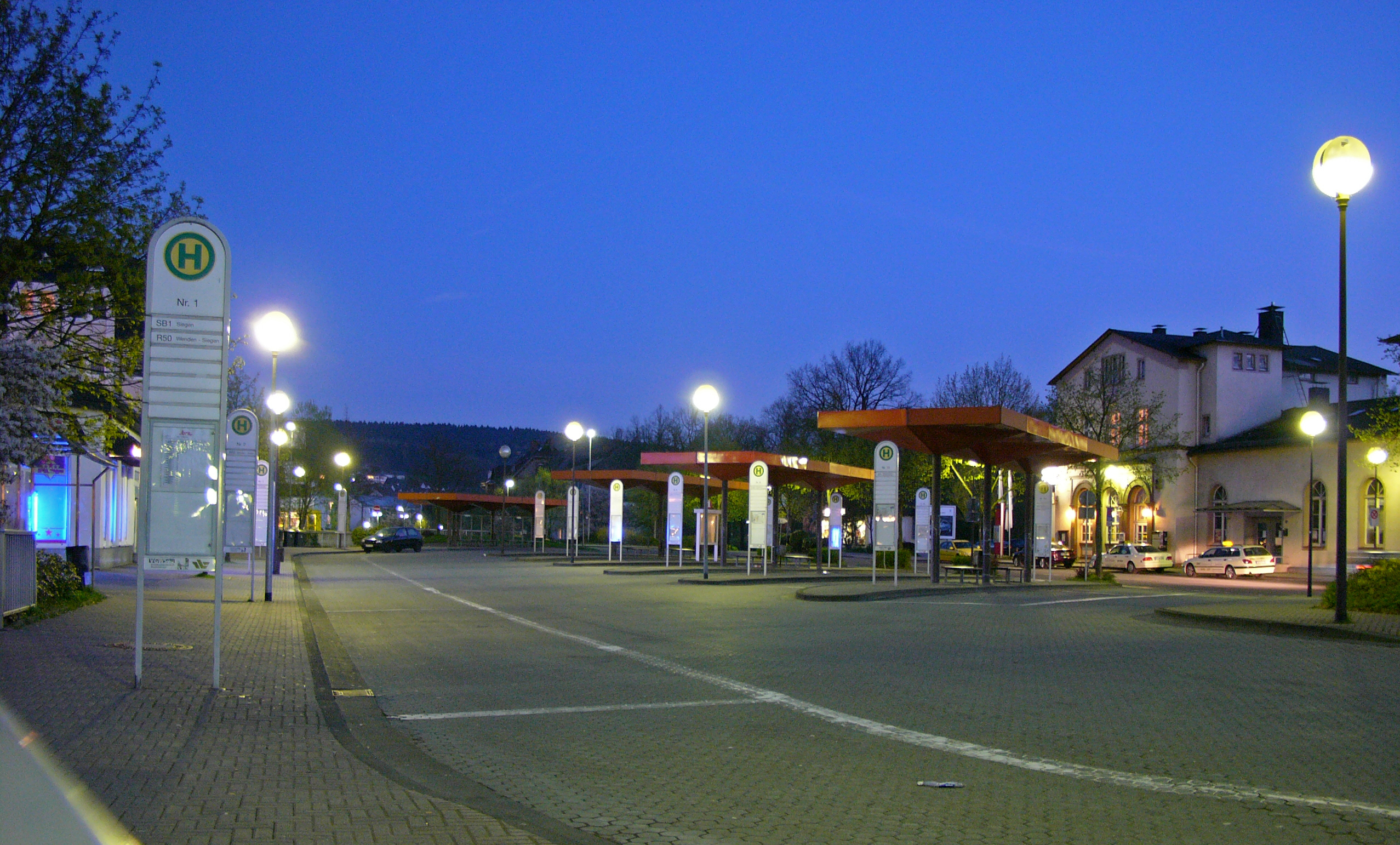 Central coach station with the railroad station on the right. It was built right over the Bigge, the stream which feeds Biggesee, a reservoir.